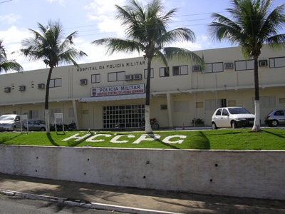 Miliraty Police Hospital RN